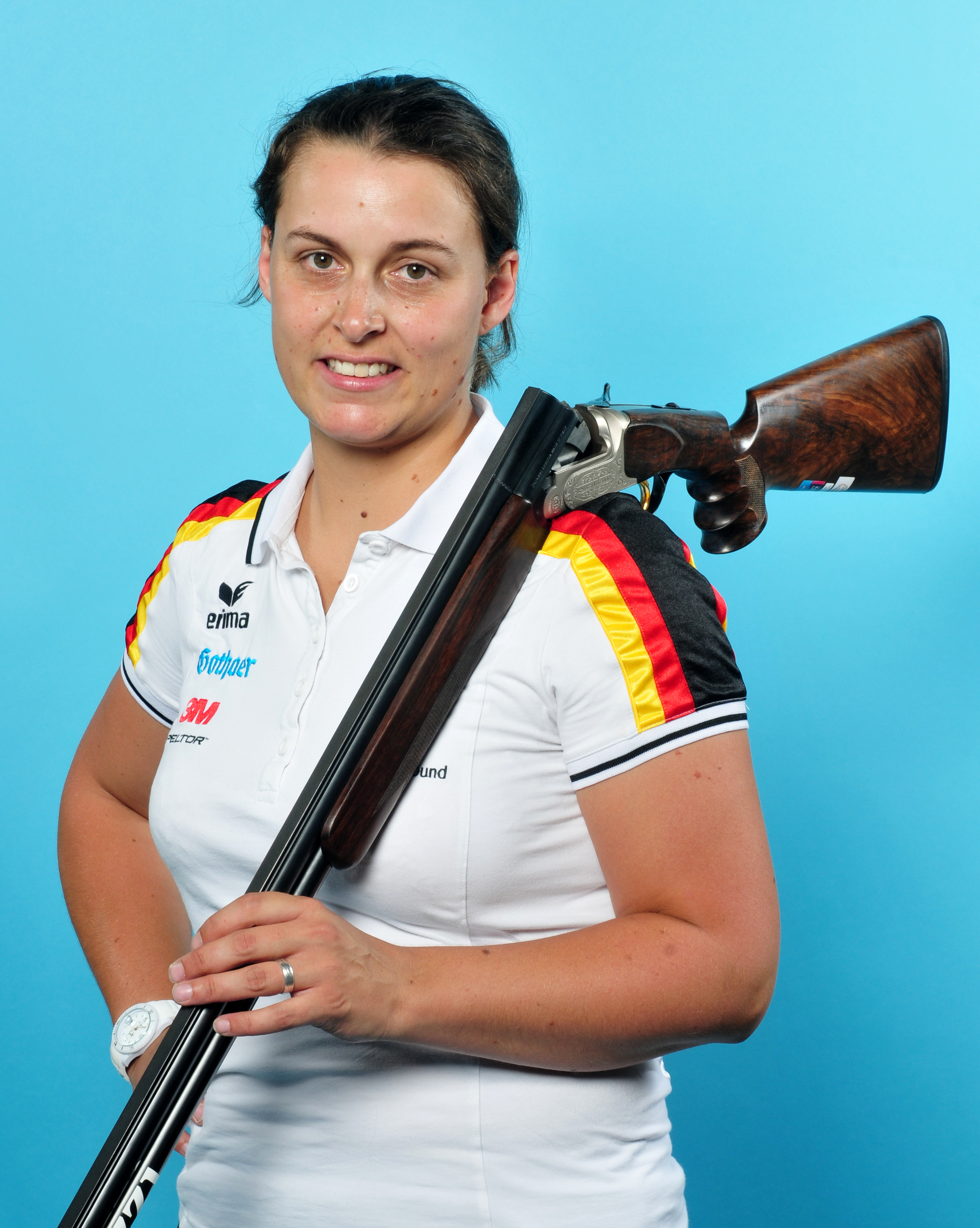 Christine Wenzel, German skeet shooter at olympic Games 2012 London Einkleidung der deutschen Olympiamannschaftam 28. Juni 2012 in Mainz - Olympische Sommerspiele 2012 Cirdan Marcus Cyron Olaf Kosinsky Ralf Roletschek Sven Teschke